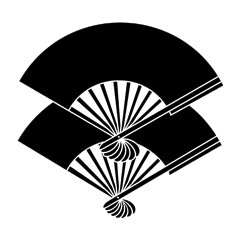 Kasane-Ogi family crest of the Matsudaira (Fuko) clan